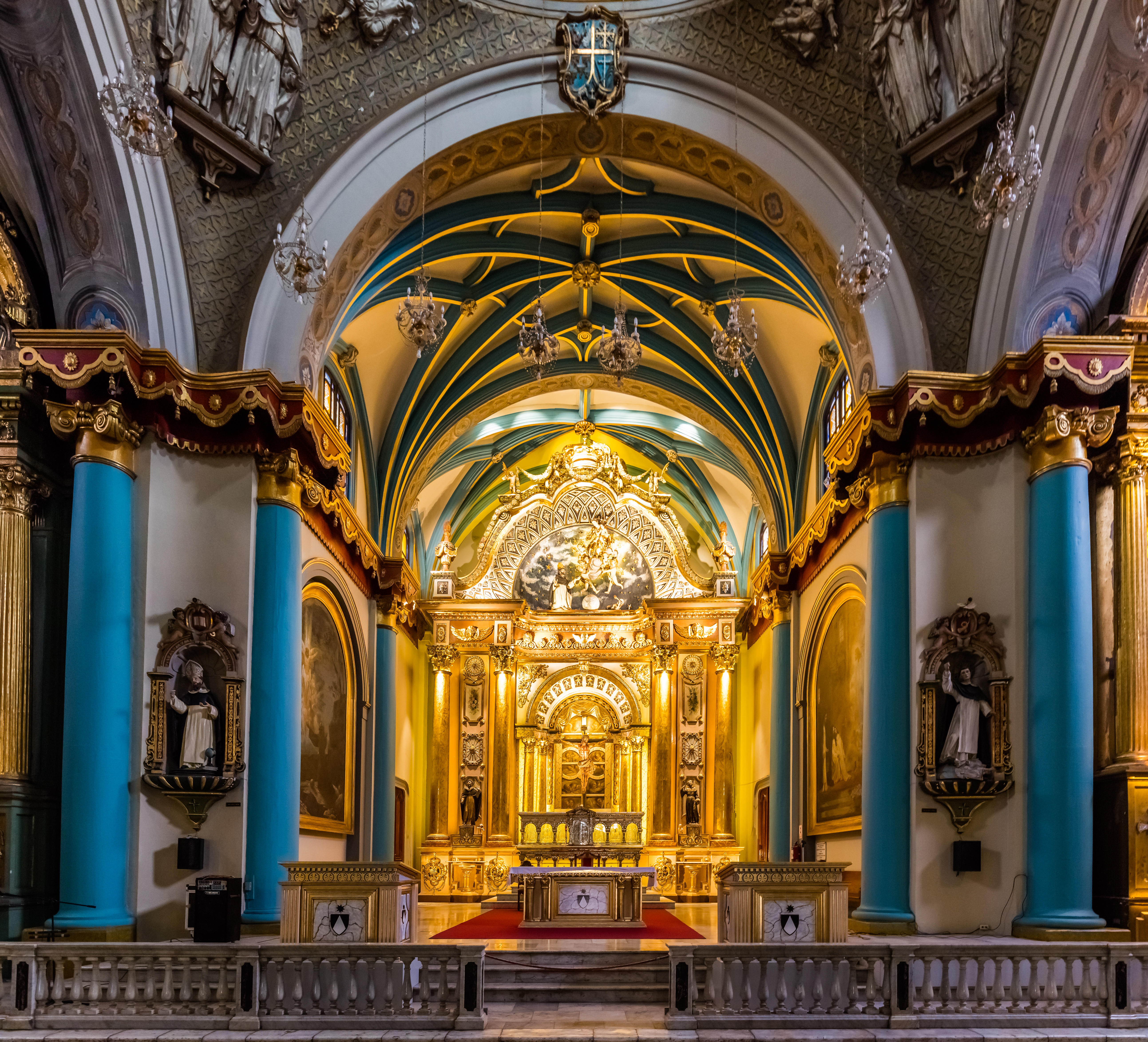 Church of St Domingo, Lima, Peru